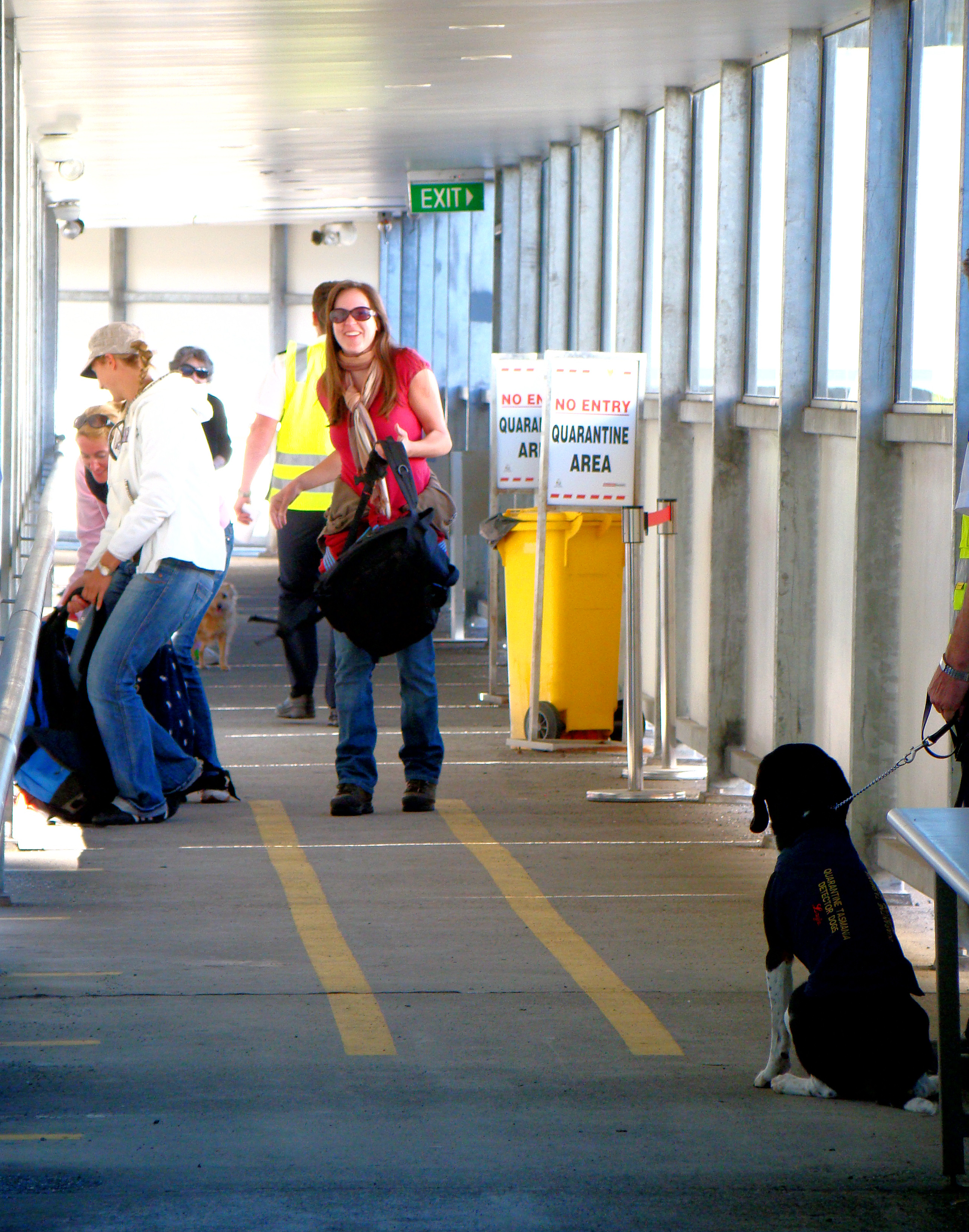 Fruit inspection line-up in Devonport as the boat from Melbourne arrives. Passengers leave their luggage between the yellow lines and the dog searches the luggage by smelling for fruit.